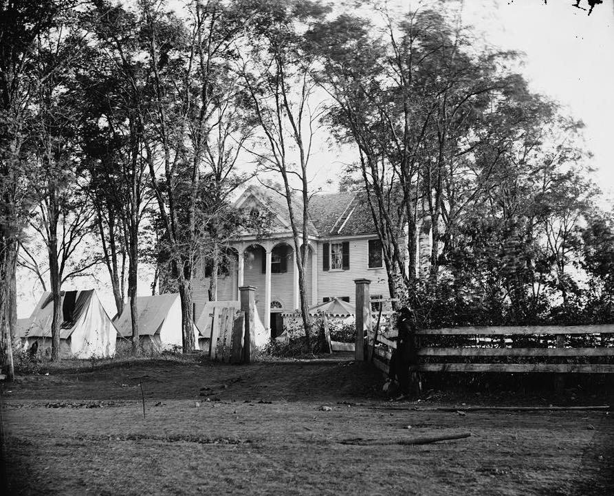 Culpeper, Va. Gen. George Meade's headquarters, Wallack's house. Photograph from the main eastern theater of war, Meade in Virginia, August-November 1863.